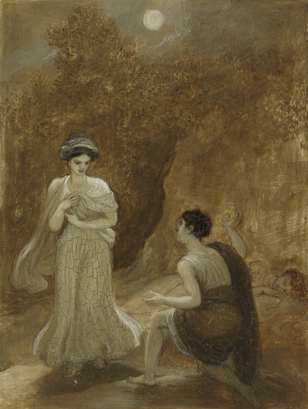 From Act II, Scene 2 of William Shakespeare's A Midsummer Night's Dream